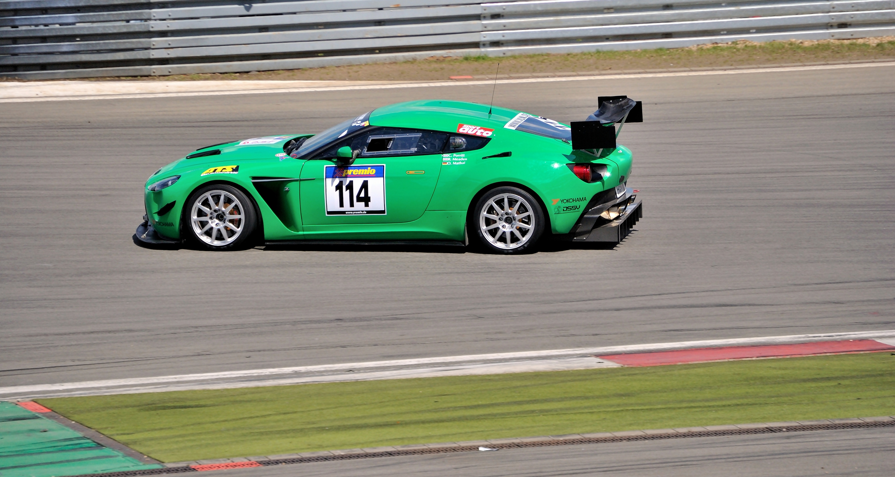 Nürburgring (District of Ahrweiler, Rhineland-Palatinate, Germany) – terrace 4 – Aston Martin V12 ZagatoThis photograph was taken with a Nikon D3000